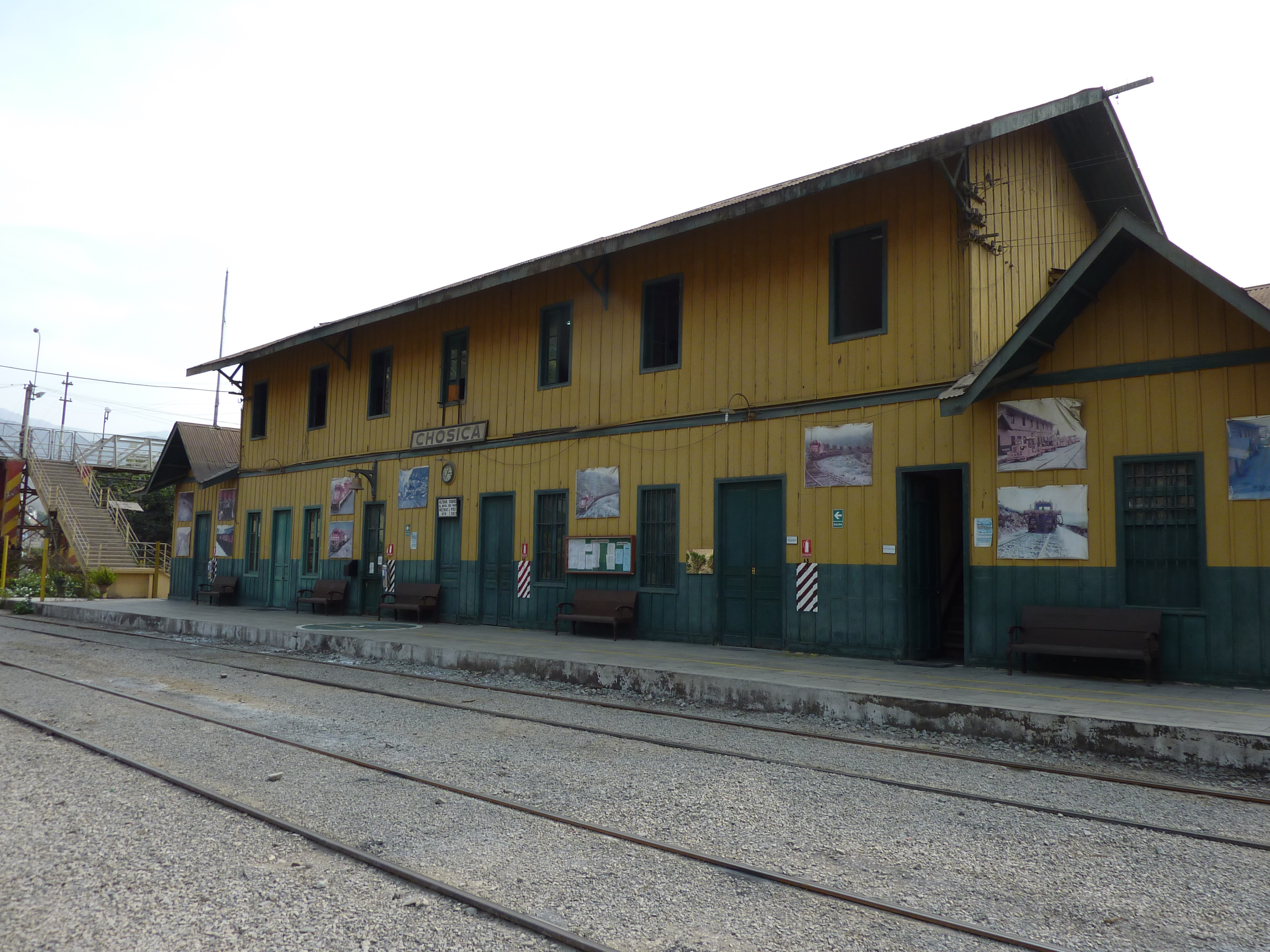 Railway station Chosica in Peru